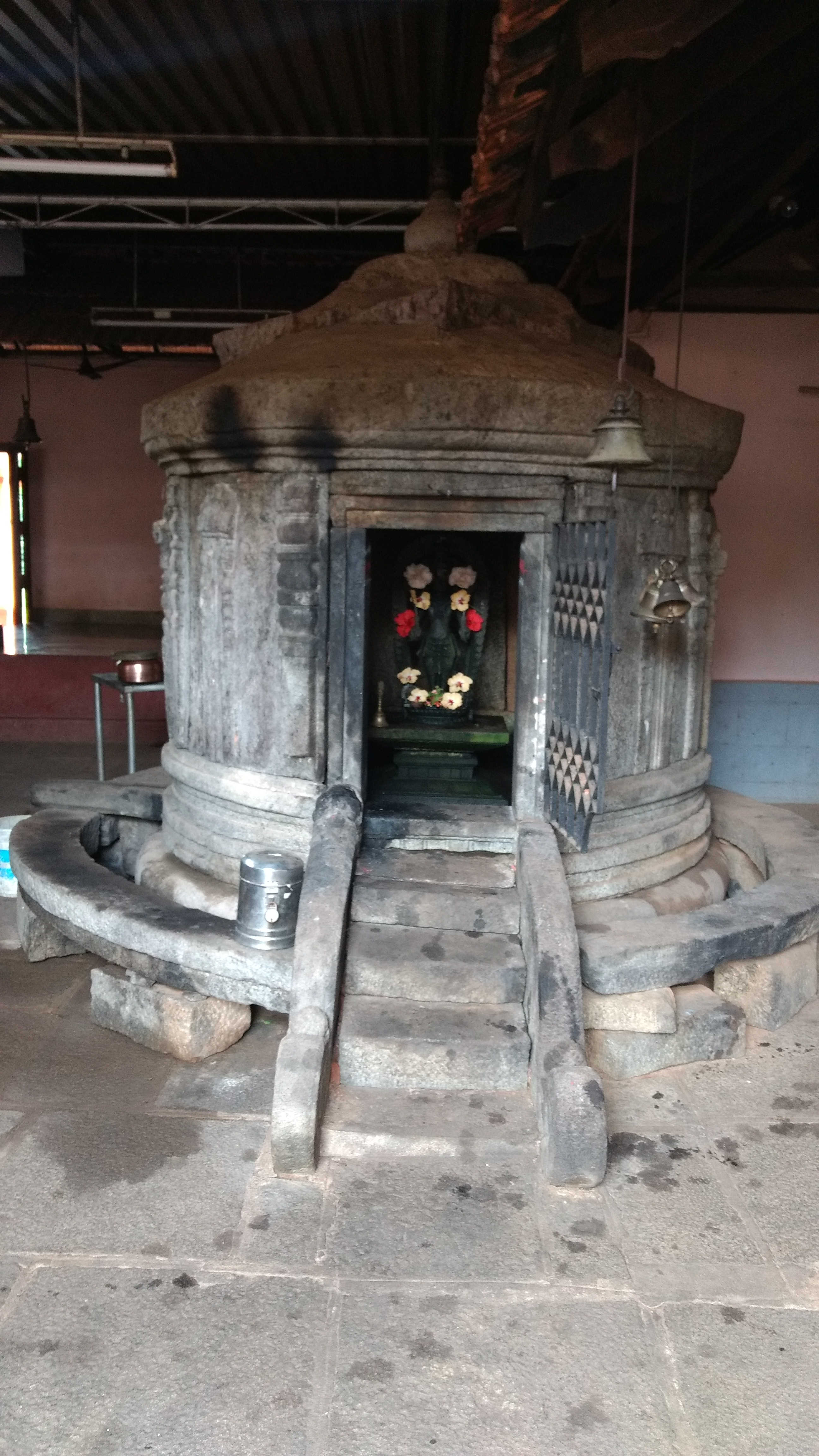 Circular shrine of solar deity Surya Narayana inside the Moodubelle Mahalingeshwara Temple Complex. The structure is made entirely of stone and was erected by a lady from the Ballal family residing at the Belle Melmane manor house.It is a medieval structure and historian Padur Gururaj Bhat dates it to the 16th century based on it's architectural style.